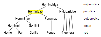 Hominoid taxonomy, diagram 7 (c. 2005, following Groves' splitting of Hylobates into 4 genera).